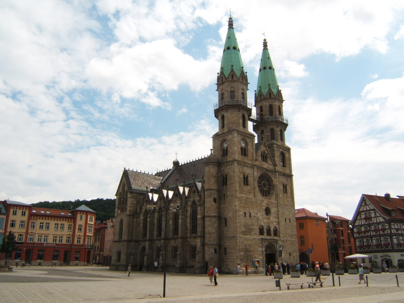 Market place in Meiningen, Germany